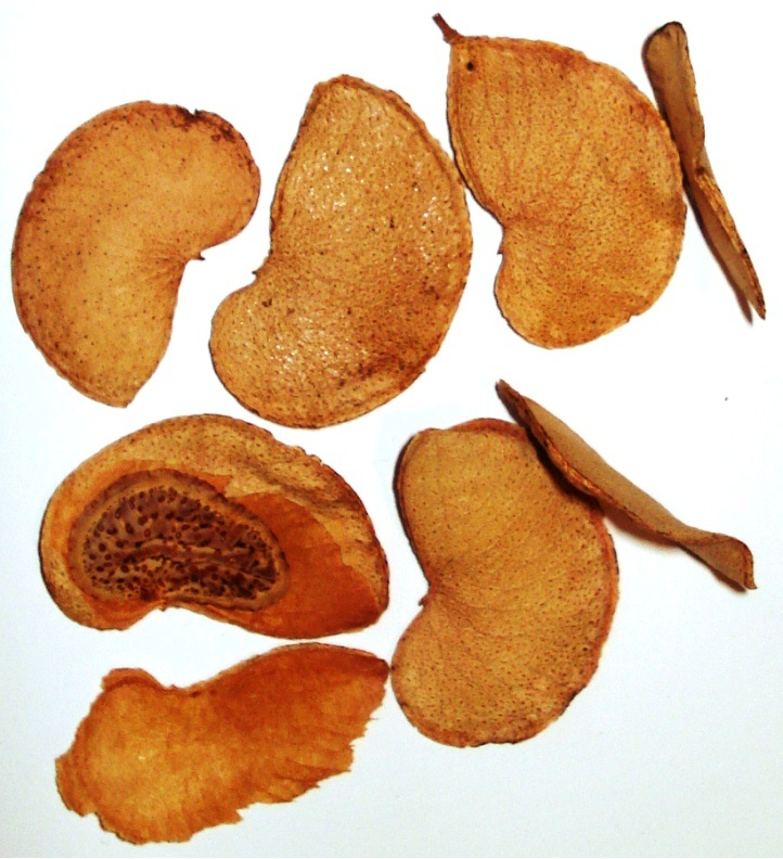 Colophospermum mopane - Seeds